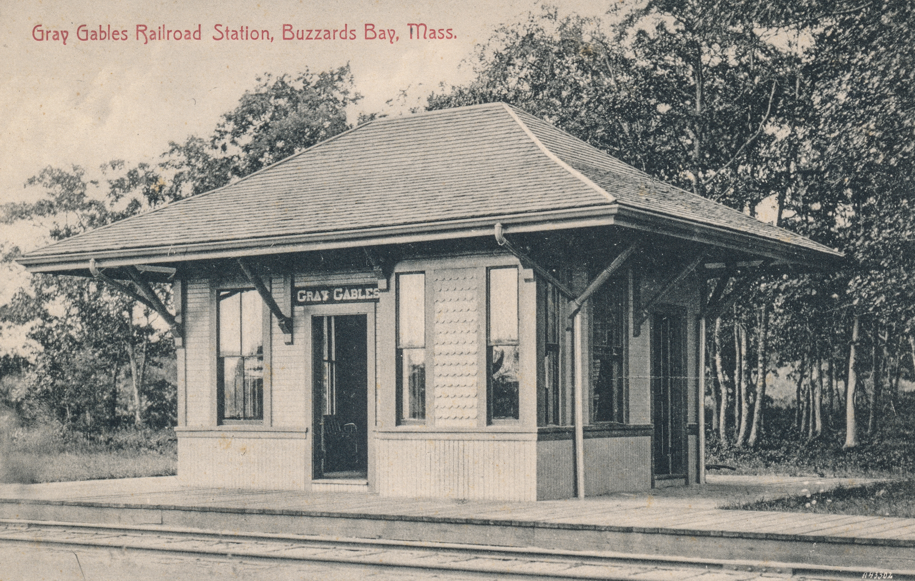 In image of the former Gray Gables train station in Buzzards Bay, Massachusetts An imprint on the rear of the card reads "Publ. by F. C. Small, Buzzards Bay, Mass. No. 31".